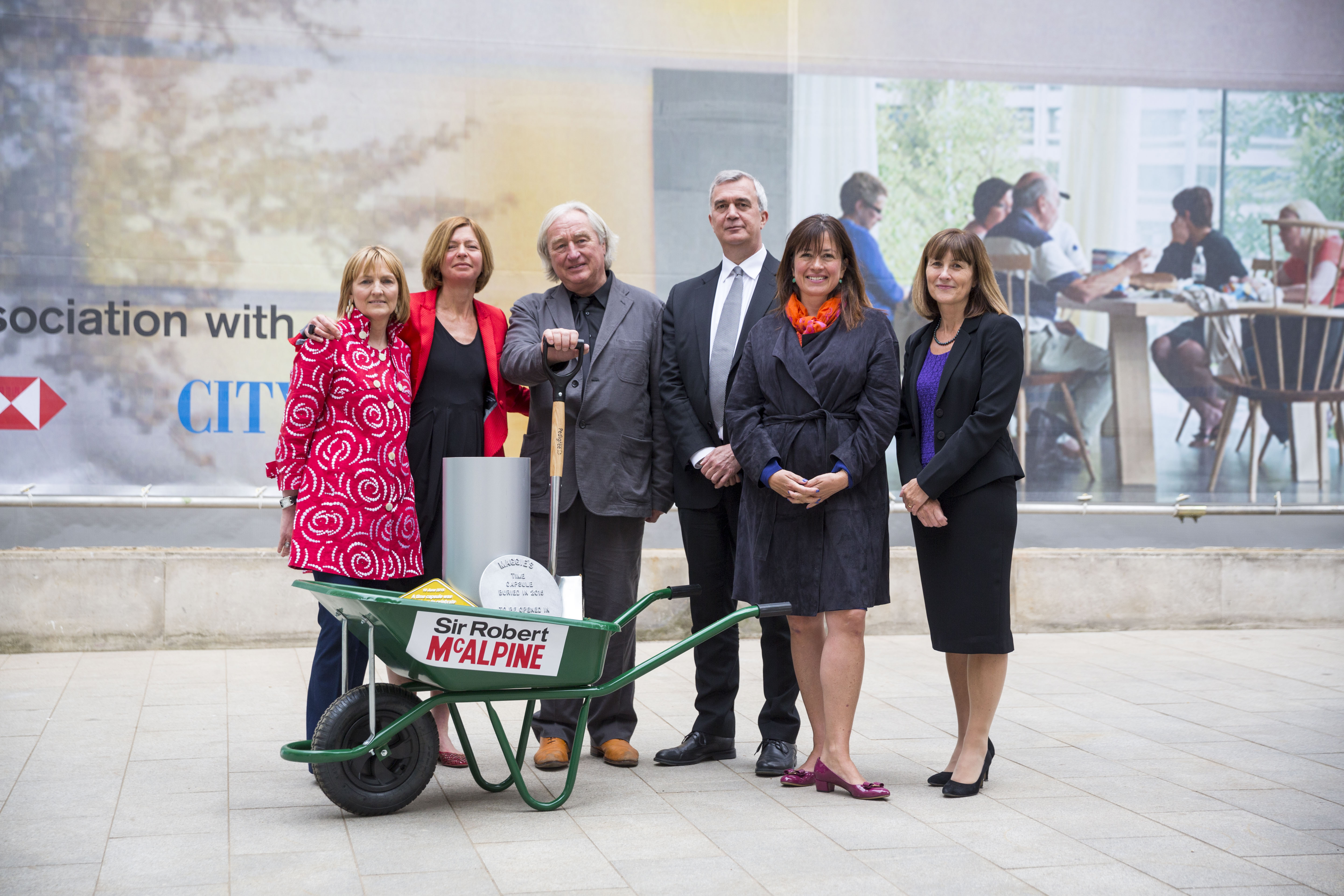 Clara Weatherall, Laura Lee, Steven Holl, Pierre Goad, Daisy Goodwin and Alwen Williams celebrate the start of construction of new Maggie's Barts, St Bartholomew's Hospital building. © Thomas Alexander Photography on behalf of Maggie’s